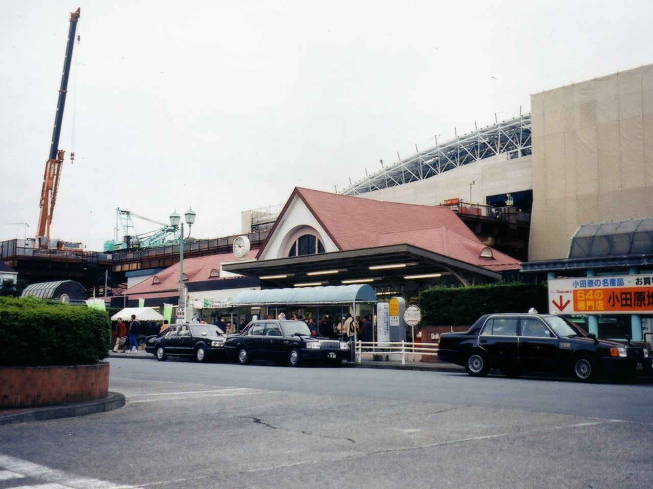 East front of Odawara Sta. on 2002